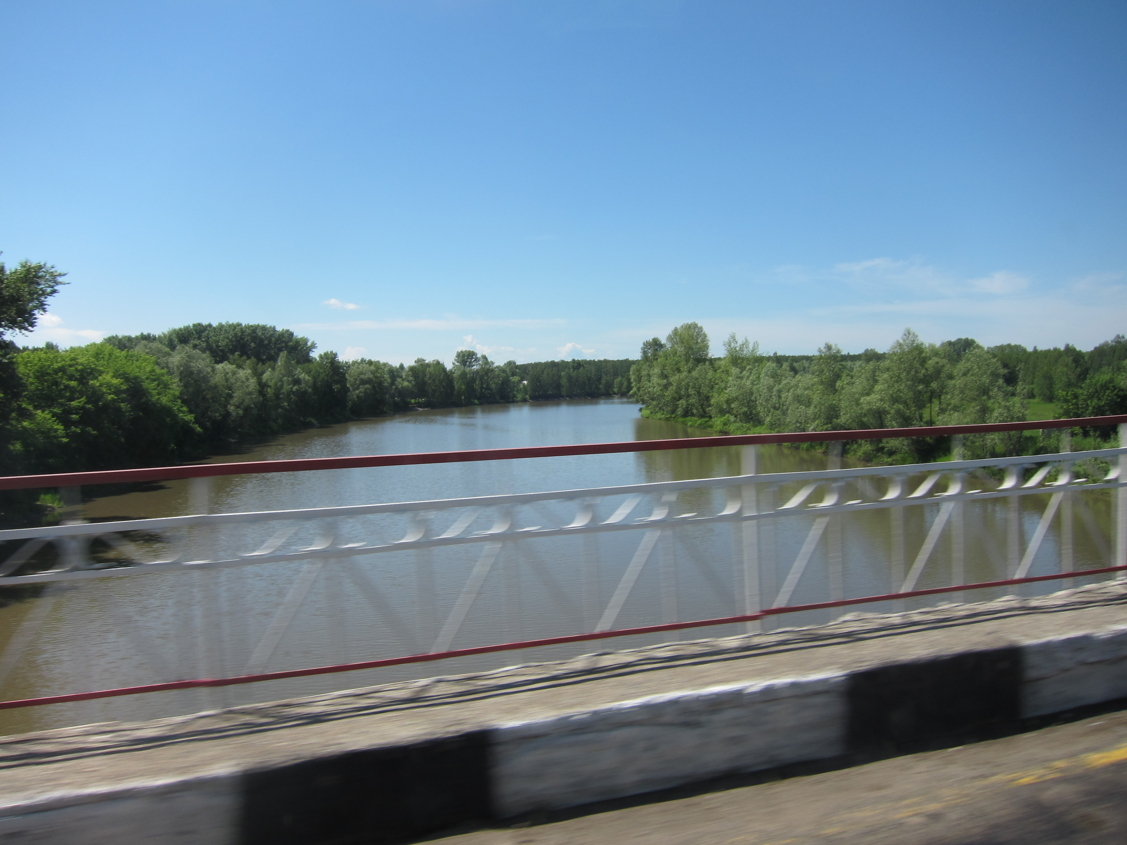 Bridge over the Isha River near Most-Isha settlement (Altai Krai)